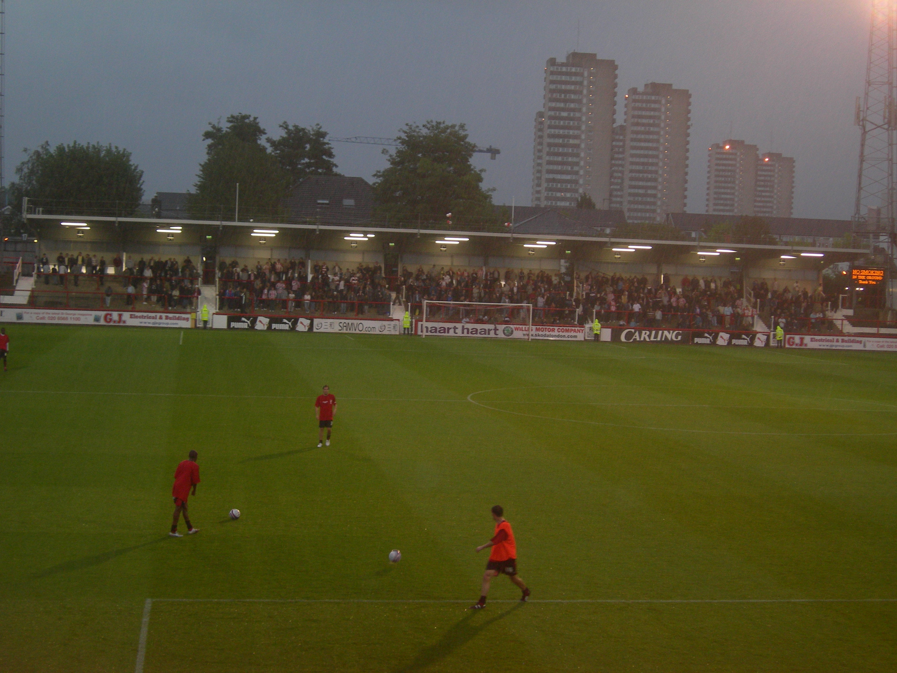 Match at Griffin Park, London, 14 August 2007.